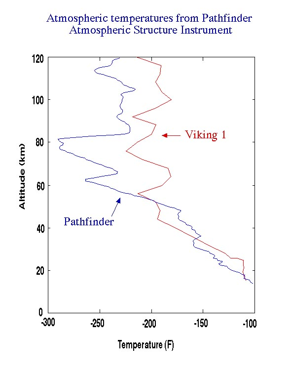 This figure presents a preliminary evaluation of the atmospheric temperature structure encountered by Mars Pathfinder during its descent through the Martian atmosphere on July 4, 1997. The deceleration of the probe during its entry is directly related to atmospheric density. Pressures and temperatures can be derived from the density using well-established physical principles. The Atmospheric Structure Instrument measured the probe's deceleration using high precision accelerometers. The temperature profile measured by the Viking 1 lander during its descent to the surface of Mars on July 20, 1976 is shown for comparison. A key debate in the Martian atmospheric sciences community has been over whether Martian climate has changed significantly since the era of the Viking missions. The issue has been whether the lower and middle atmosphere of Mars (altitudes less than 50 km) are "cold" relative to Viking or whether they are "warm" as at the time of Viking. The temperature profile in this figure shows the upper atmosphere of Mars to be quite cold relative to Viking. In fact at about 80 km altitude, the temperature is the lowest ever measured on Mars-- a brisk -275 degrees Fahrenheit. The cold temperatures in this region are not surprising since Mars Pathfinder entered the atmosphere at 3 AM Mars Local Time when the upper atmosphere cools due to the lack of solar heating. Below 60 km altitude, the temperatures measured by Pathfinder are quite close to those measured by Viking. Therefore, the measurements by Mars Pathfinder, which represent one slice through the atmosphere at one location and time, show that the atmosphere is "warm" as it was at the time of Viking.